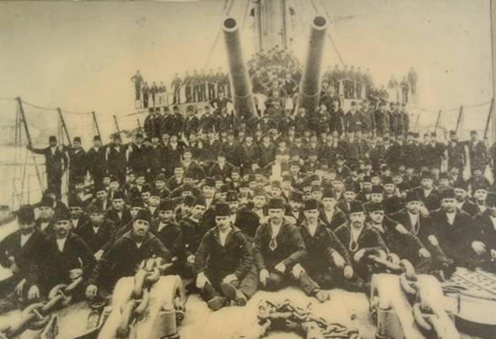 Ottoman sailors on the deck of Barbaros Hayreddin during the Balkan Wars